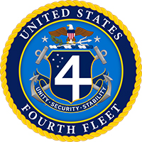 Insignia of the United States Fourth Fleet. The 4th Fleet is located in Naval Station Mayport, Florida (U.S.).